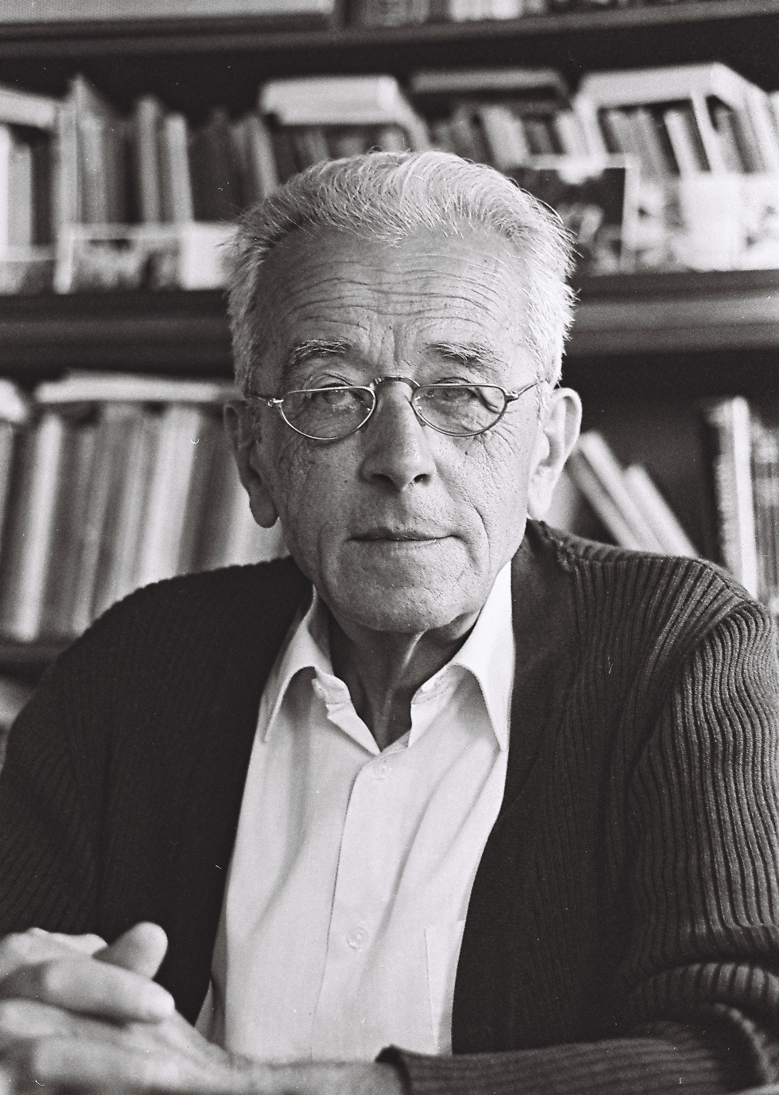 Photo Boško Petrović, Serbian writer, (Veliki Varadin, 1915 - Novi Sad, 2001), photographer Branko Lučić